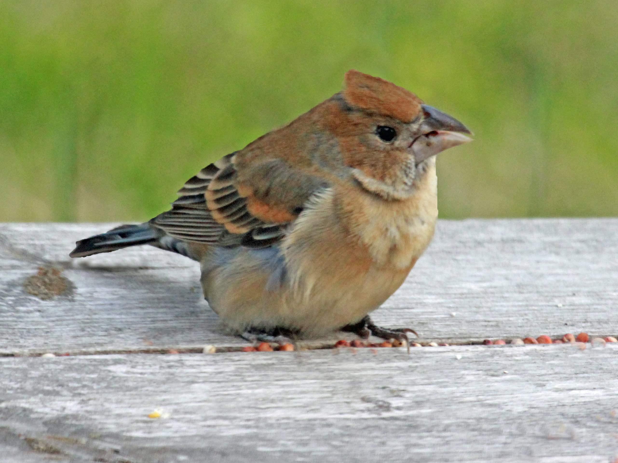 Female Blue Grosbeak (Passerina caerulea) in Ash, North Carolina, USA